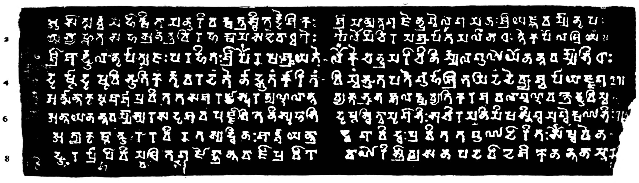 This is a Sanskrit inscription in Gupta script (parent of Devanagari) attributed to king Anantavarman. It was first published by Wilkins in 1790, eye-copied by Kittoe (above copy), transliterated by Rajendralal Mitra, translated with interpolations and interpretations by Fleet, restudied by Kielhorn in 1891. This is a Shaivism inscription based on the content (see Fleet, 1888), and variously dated between 450 CE to late 6th-century. The caves themselves are dated to 3rd-century BCE, first used by the Ajivikas tradition monks, later by the Buddhist monks, and thereafter the Hindu monks. After the 14th-century, the area was occupied by Muslims as evidenced by many inscribed tombs nearby. The inscription states that king Anantavarman consecrated an image of Shiva and Parvati in this cave. Fleet states it is likely that the image was an Ardhanarishvara (half Shiva, half Parvati). This is a photograph of a personal copy of plates published by John Fleet in 1888, with Inscriptions Of The Early Gupta Kings And Their Successors, as a part of the Corpus Inscriptionum Indicarum series, Vol. 3. The inscriptions are 2-D art created in or before the 5th-century CE. The publication date of the photographic plates in 1888 by Fleet (d. 1917) makes the work qualify for the PD-Art-100-70 guidelines. Any rights I have, I herewith donate to wikimedia under Creative Commons 4.0 license.